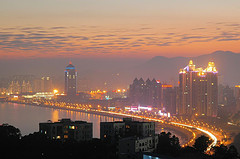 Zhuhai night skyline Zhuhai, Guangdong Province, China 2006. Source: me.